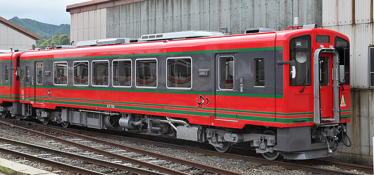 Aizu Railway Type AT-750 DMU